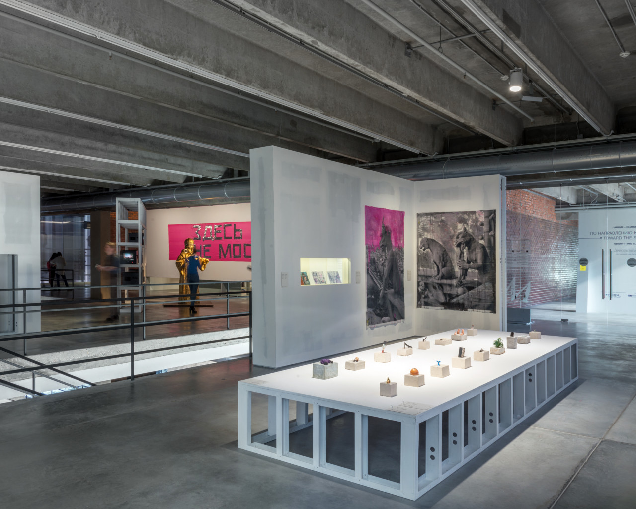 Директория "Авторские мифологии"